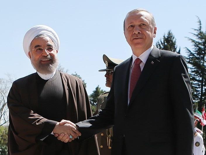 Iranian President Hassan Rouhani welcomes Turkish President Recep Tayyip Erdoğan in Saadabad Palace